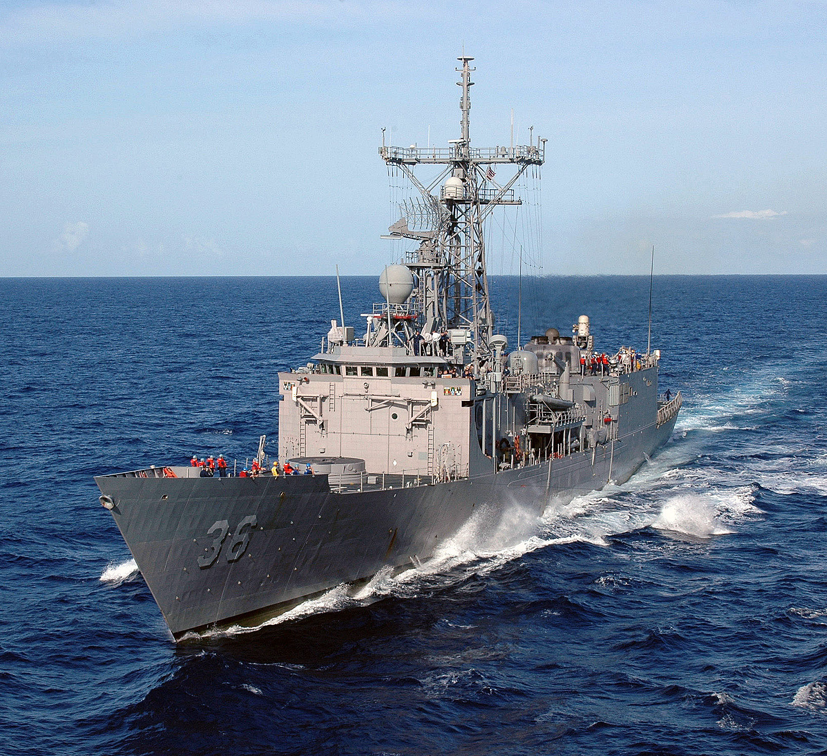 060428-N-5188B-008 Guided-missile frigate USS Underwood (FFG-36) prepares to receive fuel from the Nimitz-class aircraft carrier USS George Washington (CVN-73), during a fueling at sea. Underwood is currently participating in Partnership of the Americas, a maritime training and readiness deployment of the U.S. Naval Forces with Caribbean and Latin American countries in support of the U.S. Southern Command (SOUTHCOM) objectives for enhanced maritime security.